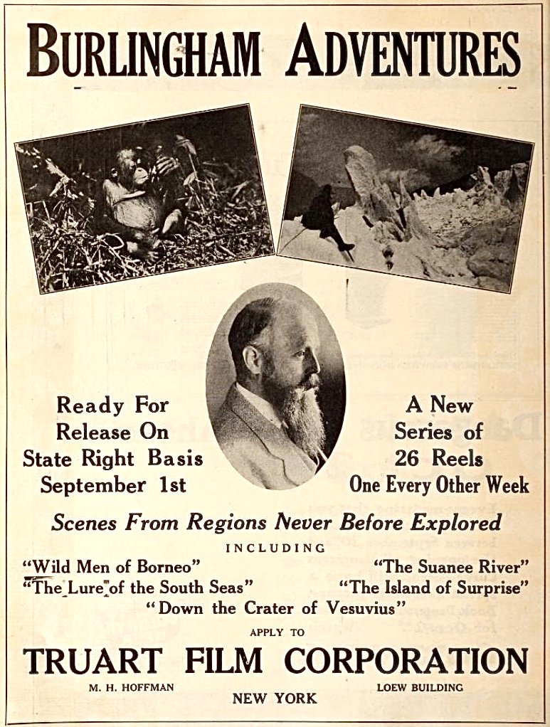 Advertisements for travelogues by American journalist and filmmaker Frederick Burlingham, published in Motion Picture News, August 27, 1921, p. 1018; oval photographic portrait of Burlingham at center, above two images of monkey and man (presumably Burlingham) sitting on a glacier or snow-covered mountainside.